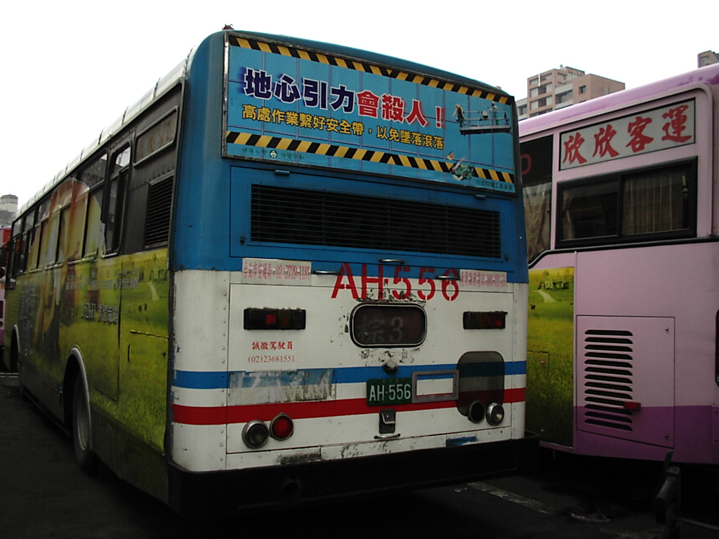 Former Shin-shin Bus Co., Ltd. Isuzu LT133L bus. (MRT Route Brown 3, AH-556) Profile